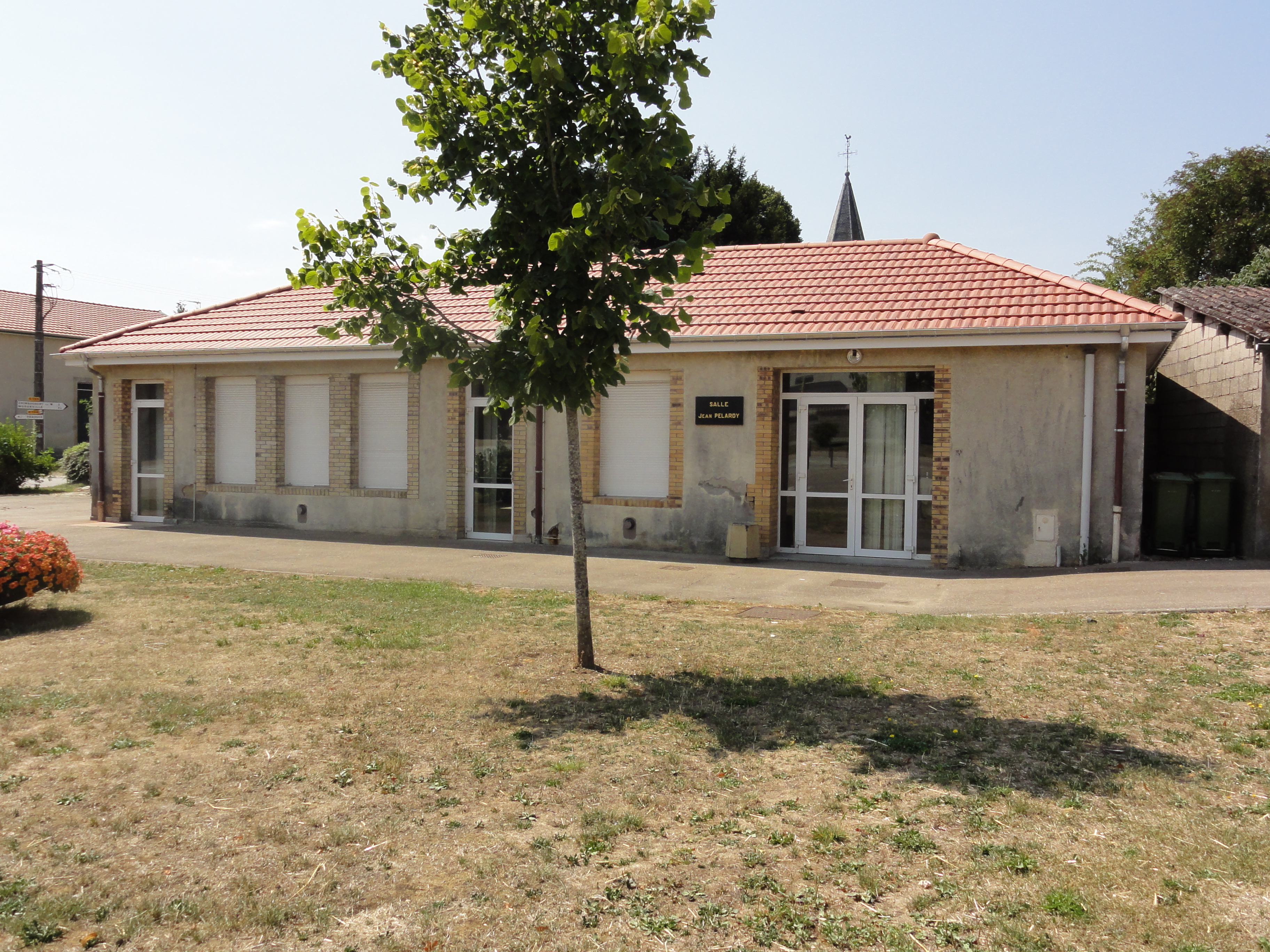 Hermeville-en-Woëvre (Meuse) salle Jean Pelardy